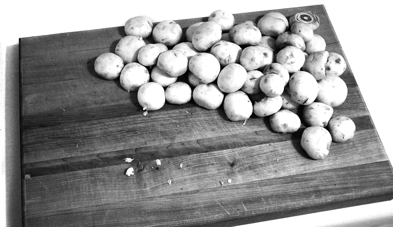 White mushrooms being prepared for cooking.